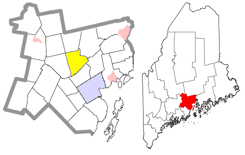 Map of the divisions of Waldo County, Maine, United States, with the town of Brooks highlighted in yellow. The city of Belfast is light blue; other towns are white; and pink areas are census-designated places within towns.